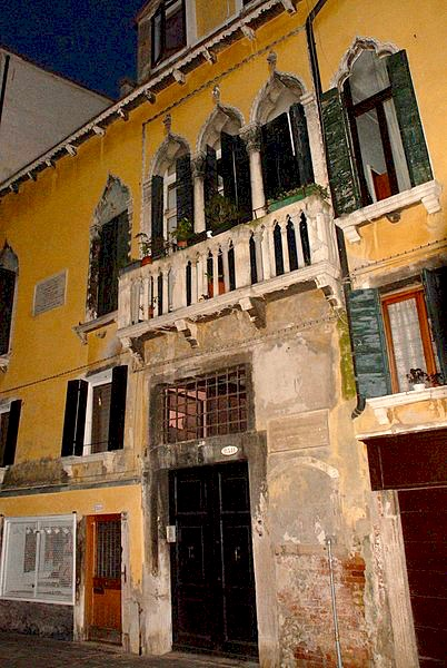 An dieser Stelle befand sich Aldus Offizin. Zwei Gedenktafeln erinnern daran. Calle del Scaleter, 2235, 30125 Venezia VE, Italien